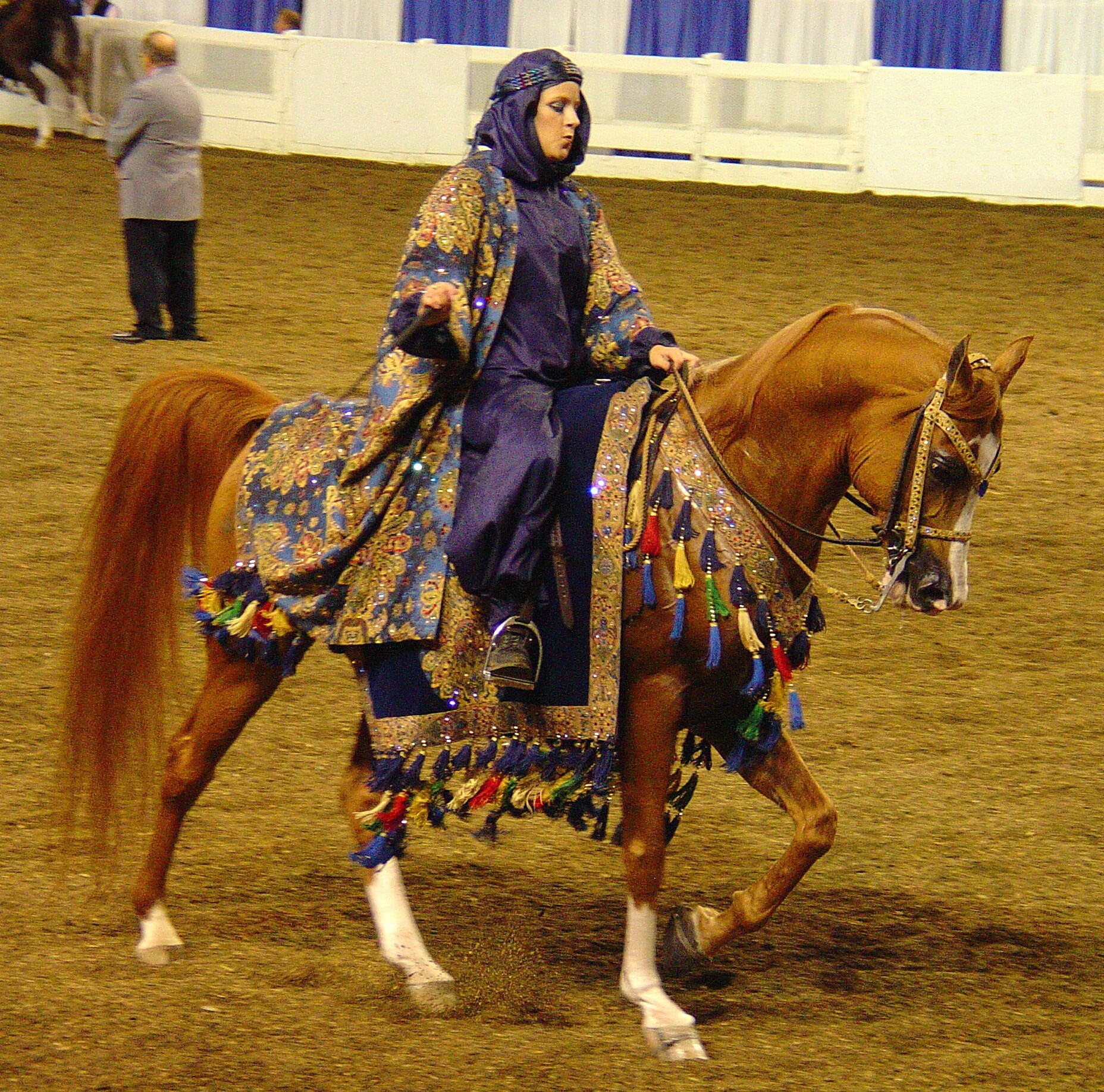 Photo by Heather abounader